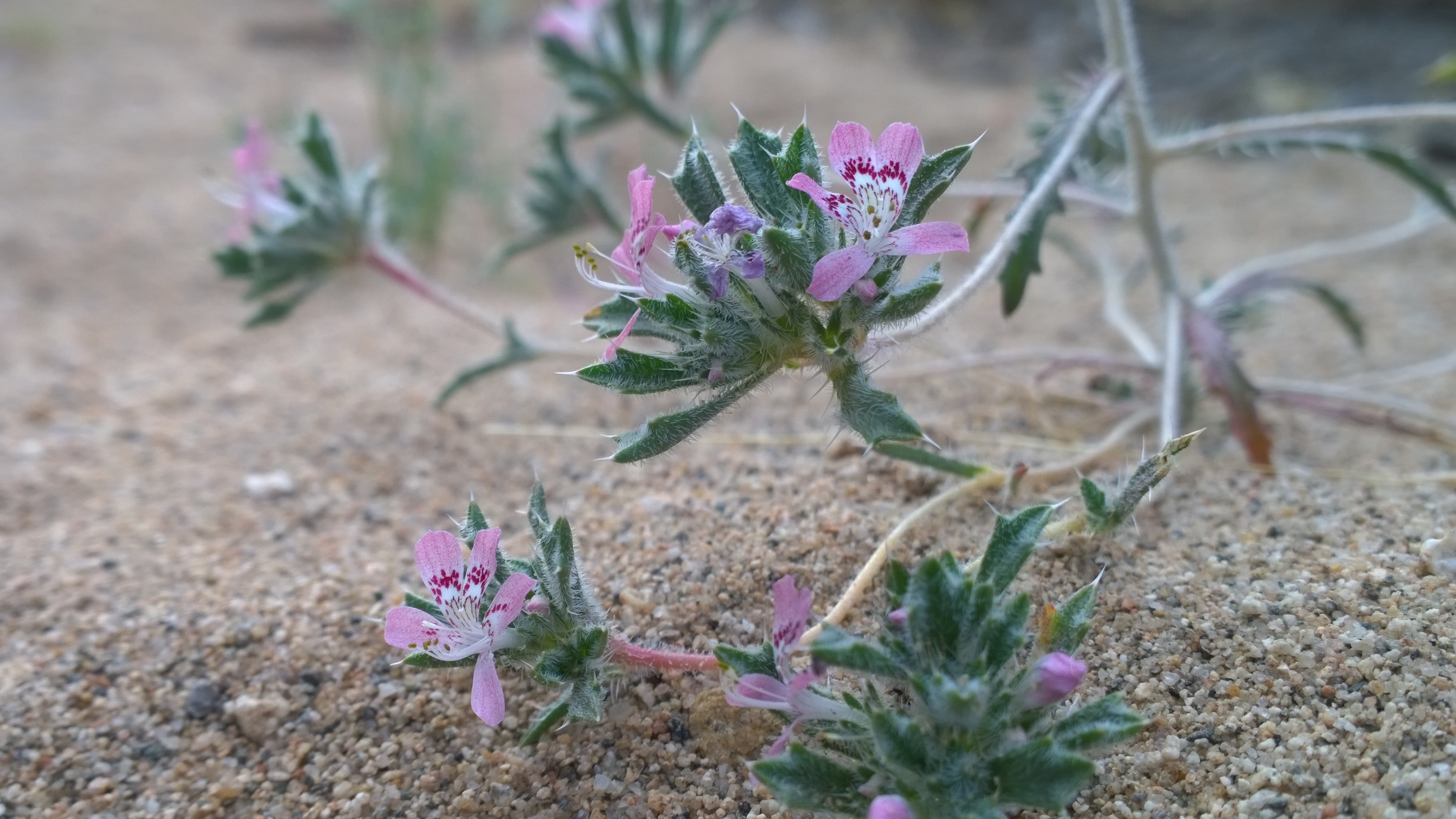 Desert Calico (Loeseliastrum matthewsii). NPS/Daniel Elsbrock